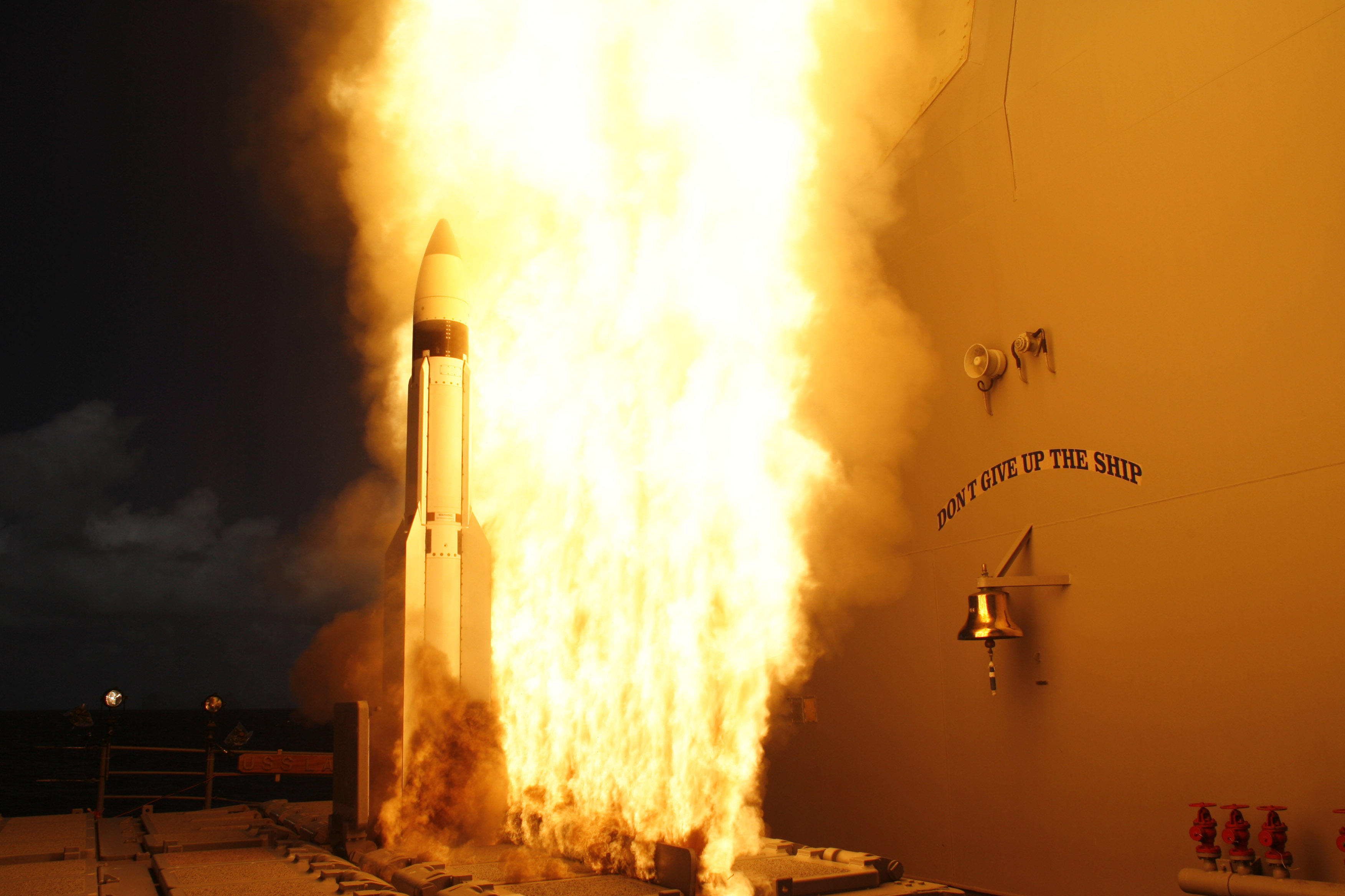 A Standard Missile-3 (SM-3) is launched from the guided missile cruiser USS Lake Erie (CG 70), during a joint Missile Defense Agency, U.S. Navy ballistic missile flight test. Approximately three minutes later, the SM-3 intercepted a unitary (non-separating) ballistic missile threat target, launched from the Pacific Missile Range Facility, Barking Sands, Kauai, Hawaii. Within moments of this launch, the USS Lake Erie also launched a Standard Missile-2 (SM-2) against a hostile air target in order to defend herself. The test was the eighth intercept, in 10 program flight tests. The test was designed to show the capability of the ship and its crew to conduct ballistic missile defense and at the same time defend herself. This test also marks the 27th successful hit-to-kill intercept in tests since 2001.